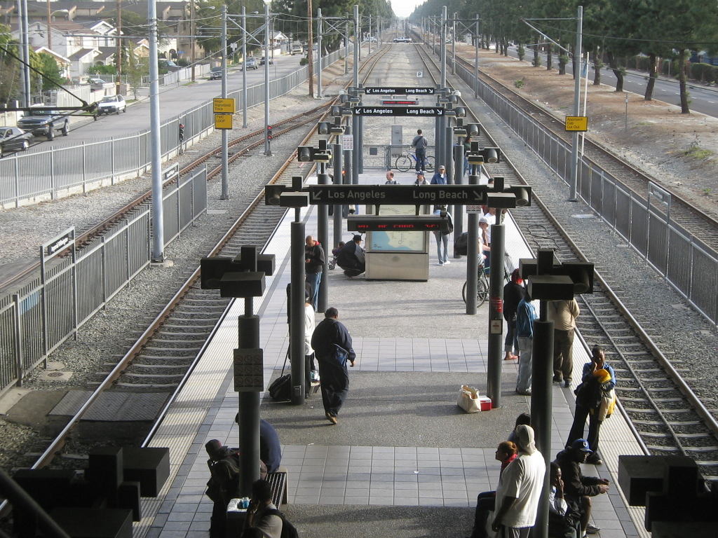 Picture of the Imperial/Wilmington station lower platform (Blue Line) on the Blue and Green lines of the Los Angeles Metro.